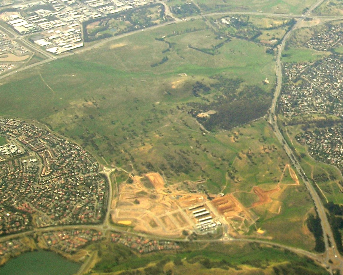 Aerial view of Crace, Australian Capital Territory, just starting construction